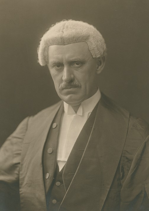 Portrait of George John Robert Murray.